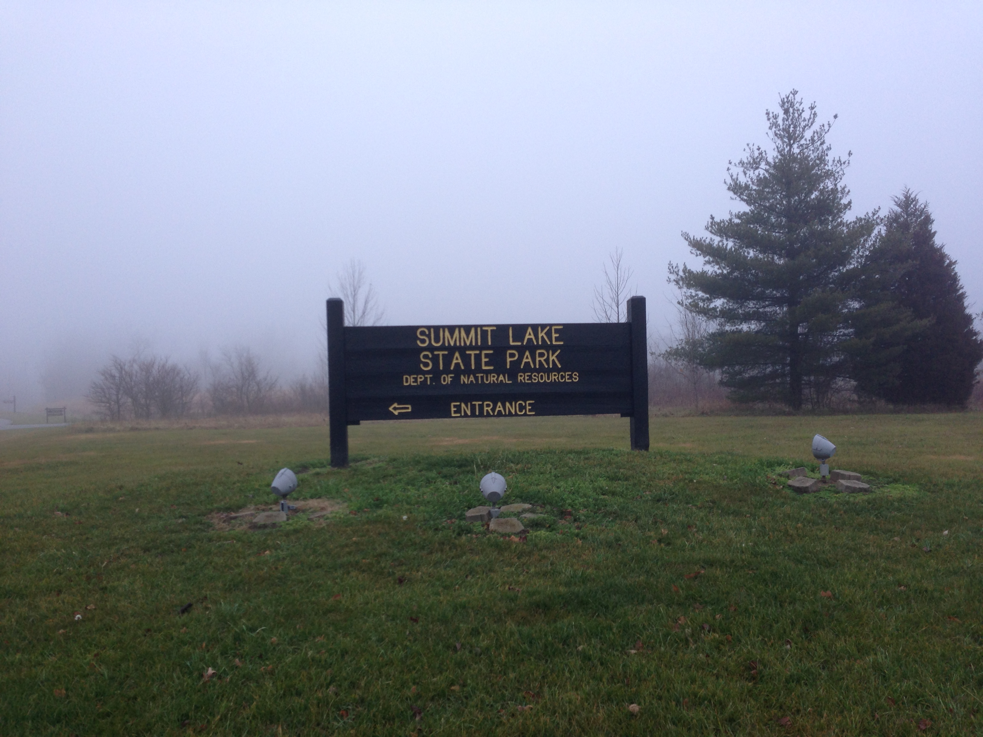 Sign at Summit Lake State Park